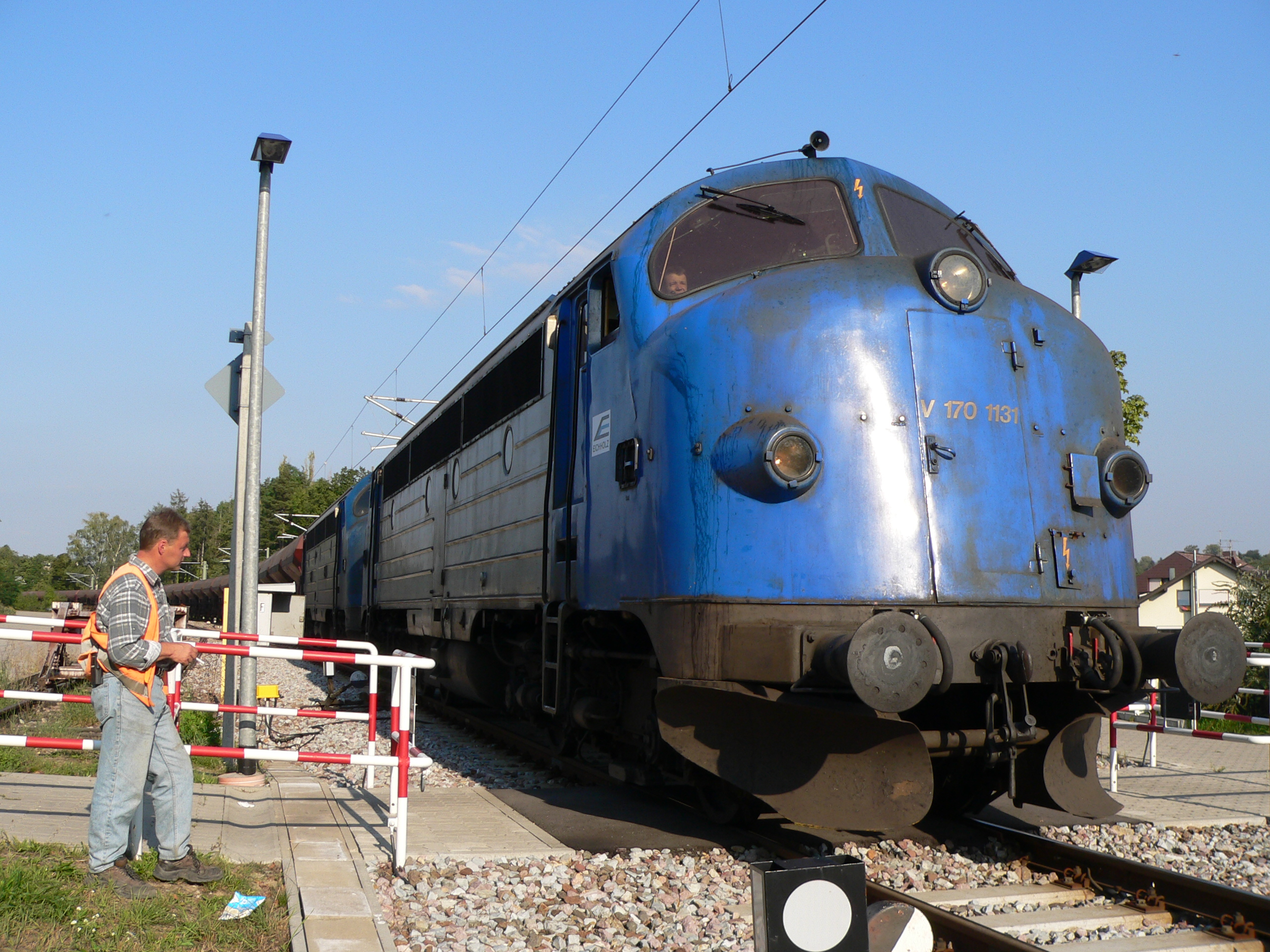 NOHAB MY Eichholz V170 1131; ex DSB MY 1131; Enztalbahn near Pforzheim, Germany